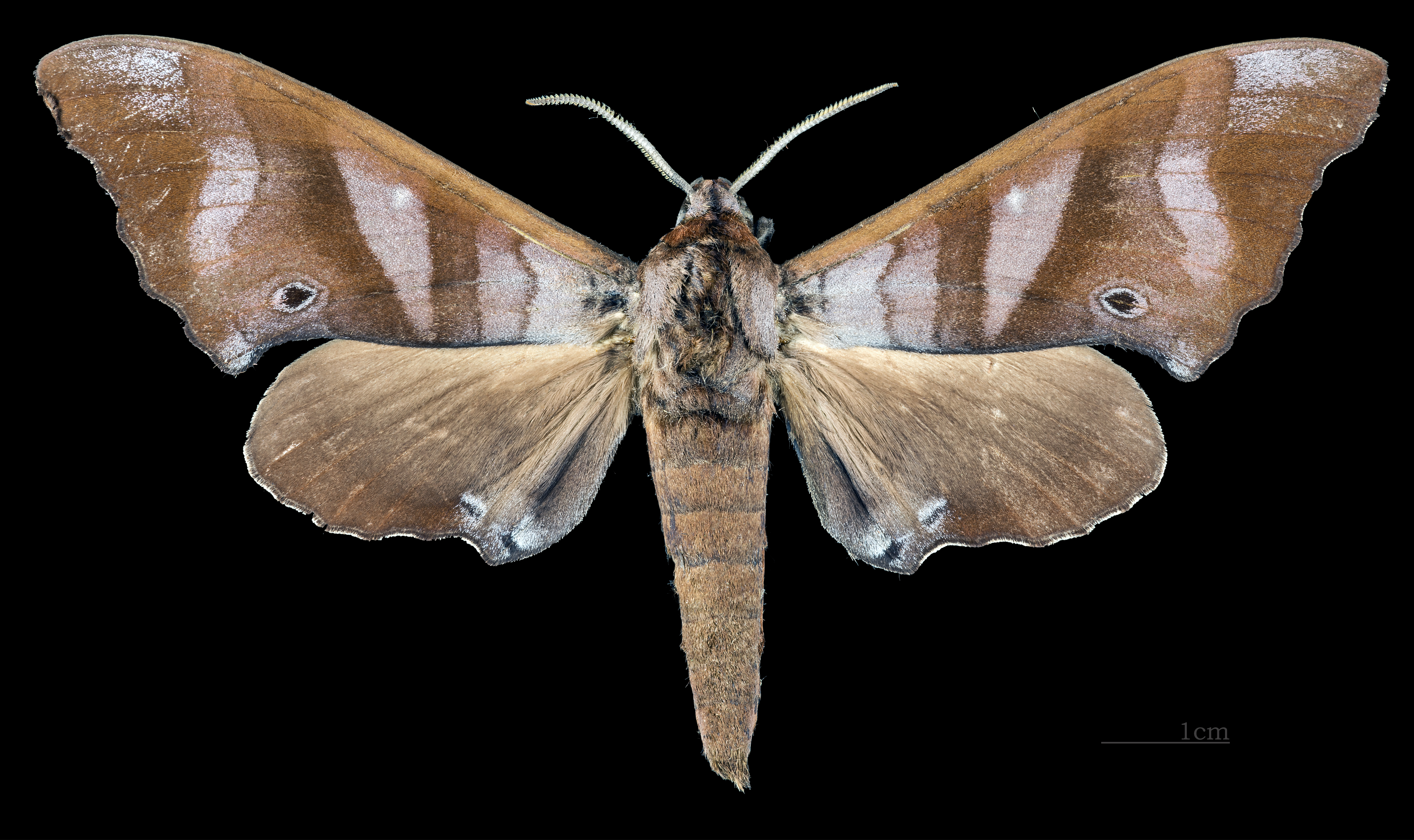 Marumba nympha - Dorsal side Collection of the Mathematician Laurent Schwartz